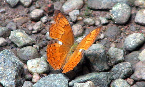 Butterfly - Tamil Yeoman (Cirrochroa thais). Palai, Kerala, India.